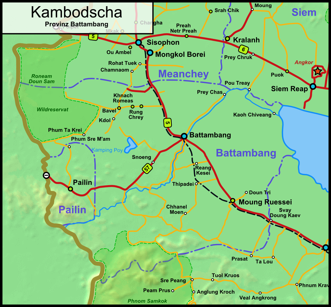 Map of the Cambodian province Battambang